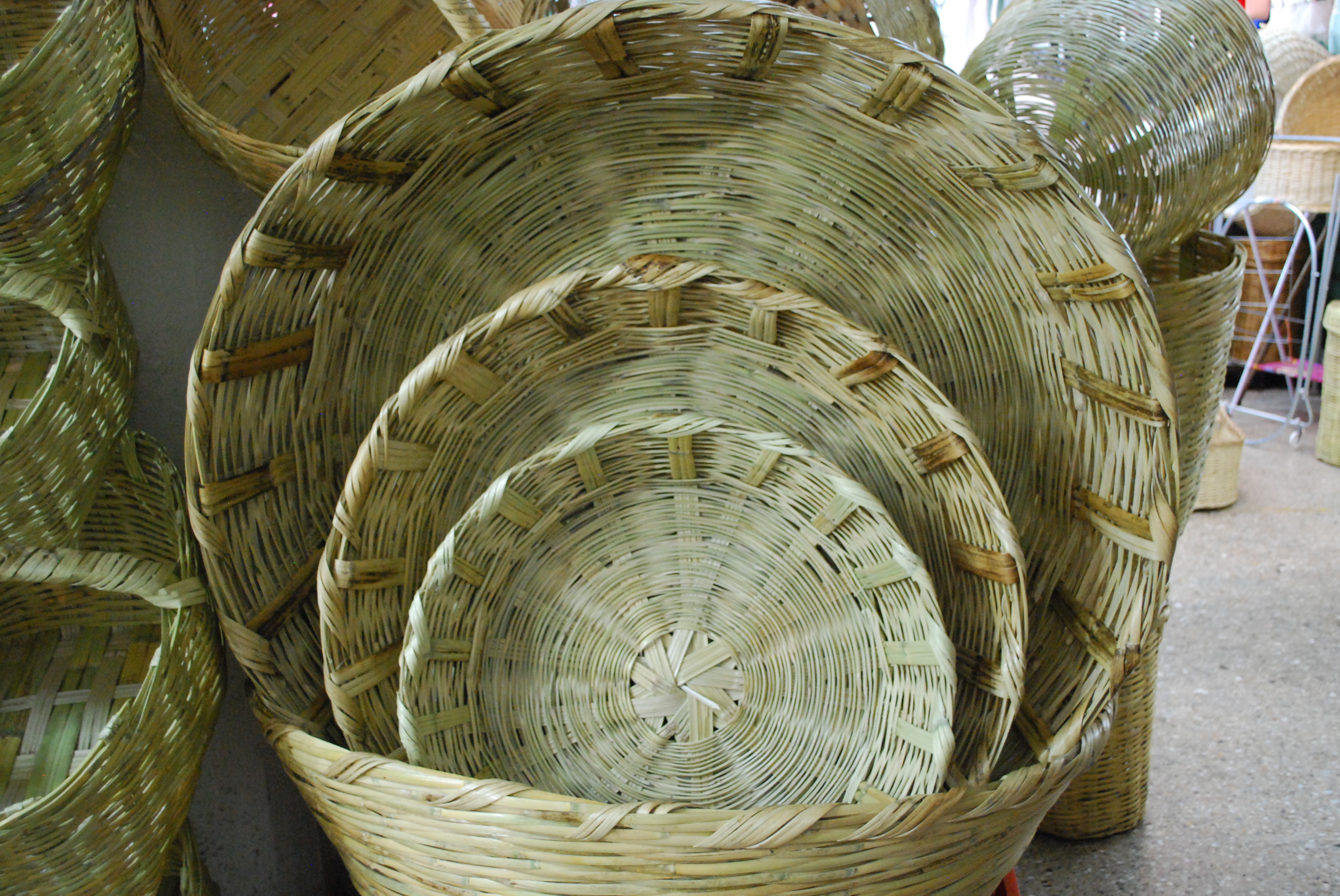 Baskets for bread vendors on display at the La Merced Market in Mexico City